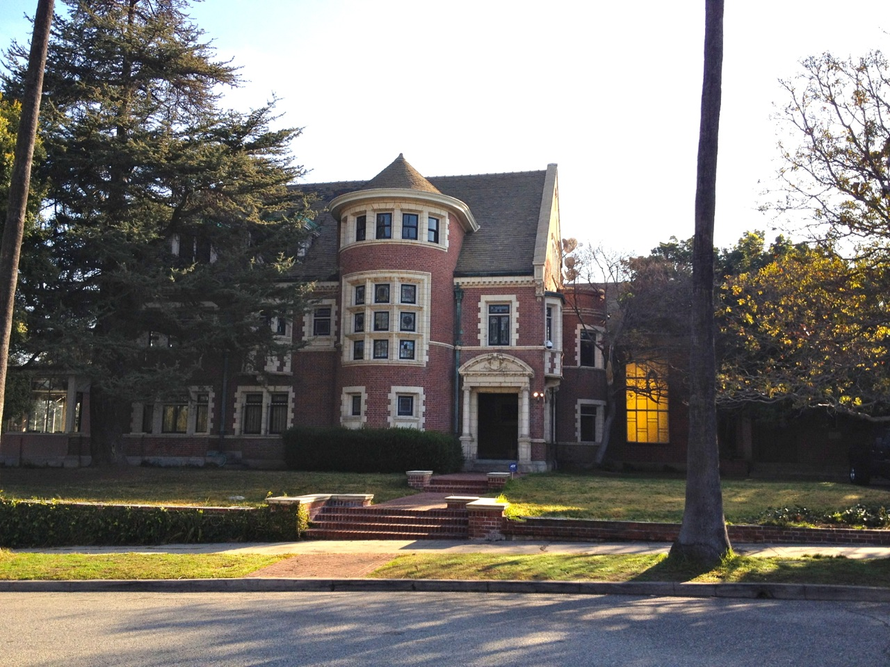 A Walker in LA: Follow me at @gelatobaby